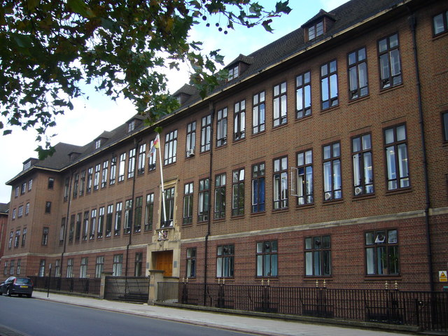 Royal Veterinary College, Royal College Street